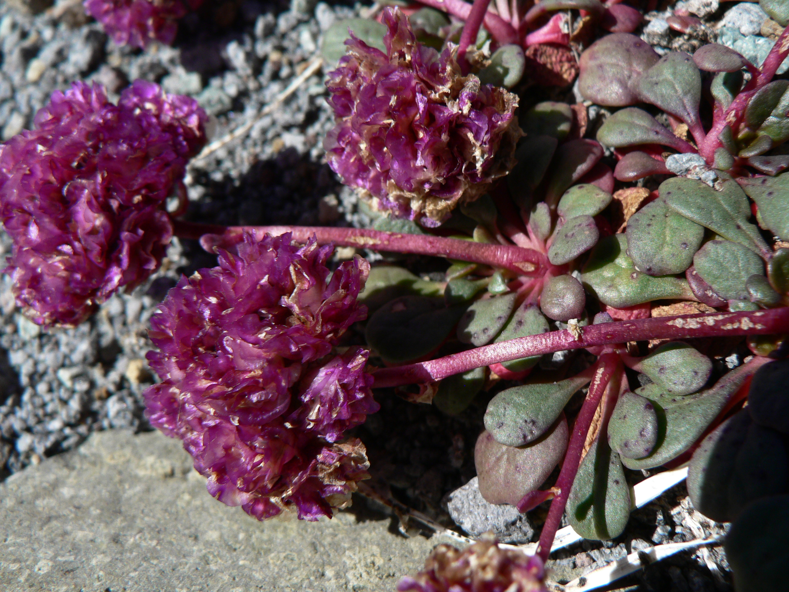 Mt. Hood Pussypaws